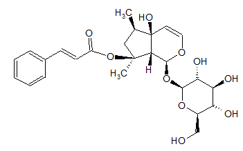 Harpagoside structure